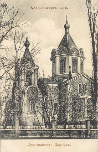 Orthodox church in Aleksandrów Kujawski